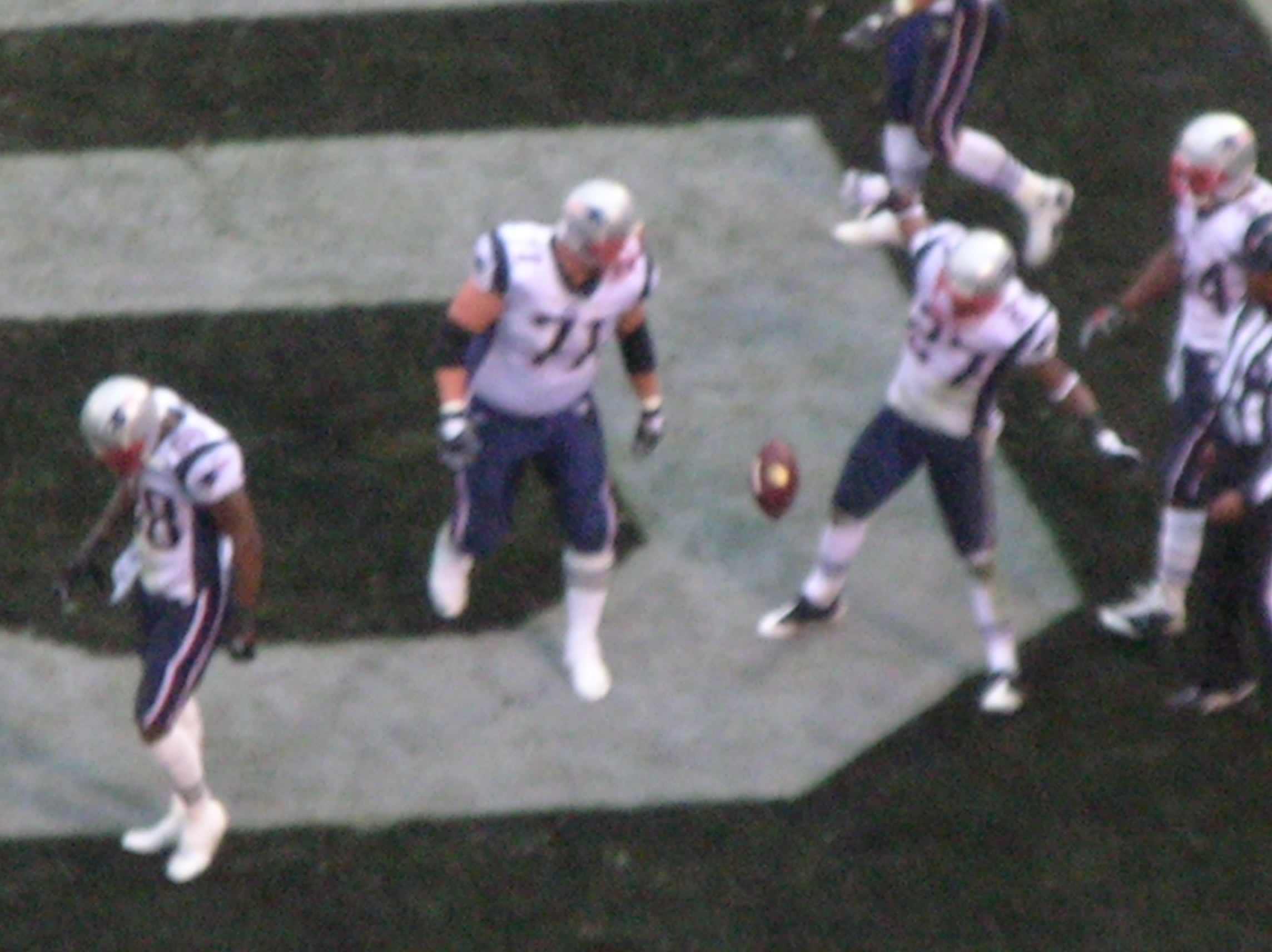 Ellis Hobbs (#27) celebrates a kick return he made for the fifth Patriots touchdown during an away game against the Oakland Raiders. The Patriots won 49-26.